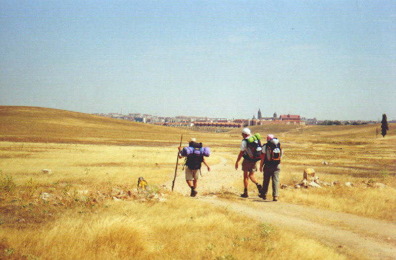 Pilgrims arriving to Salamanca (Spain) by the "Way of St. James". The yellow arrows on the stones on both sides of the road lead the way.